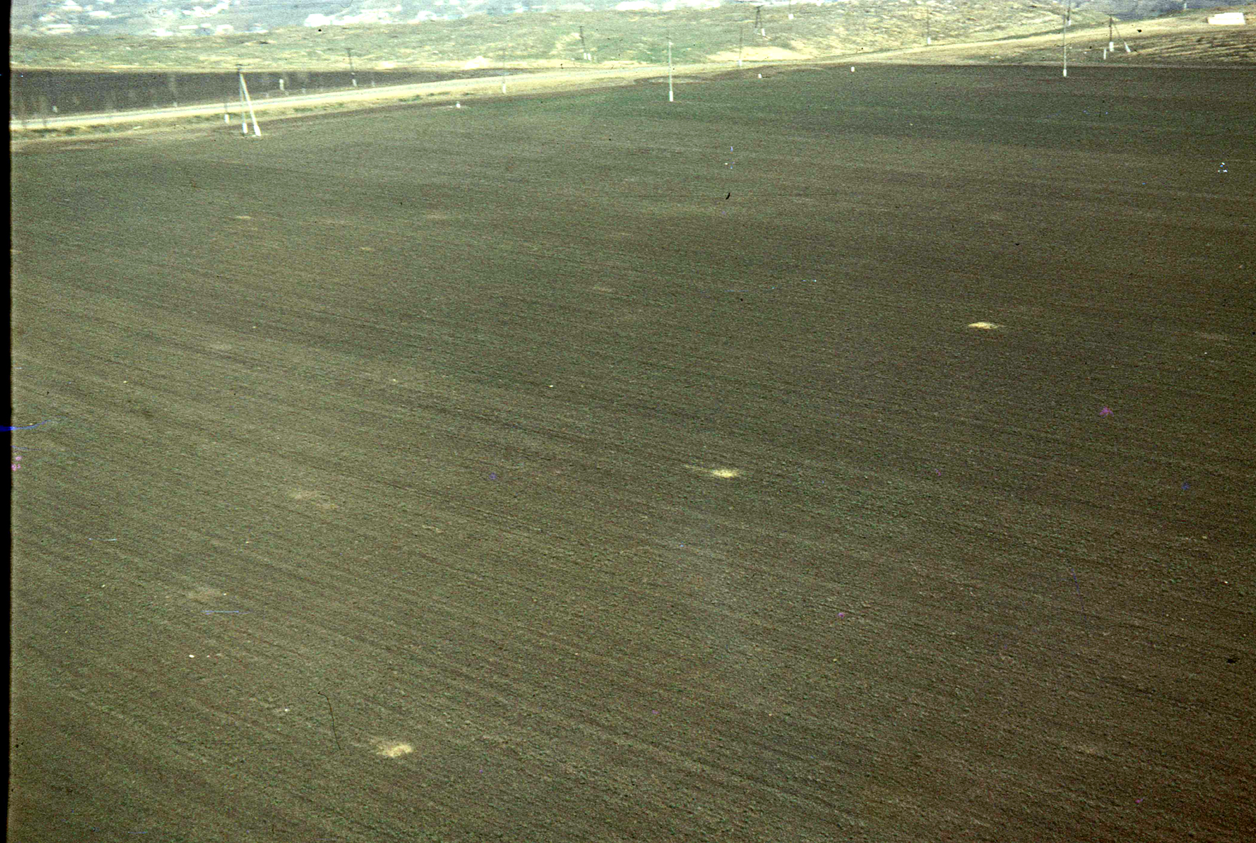 Speckled ground squirrel burrows, view from airplane. Odesa oblast, Ukraine.